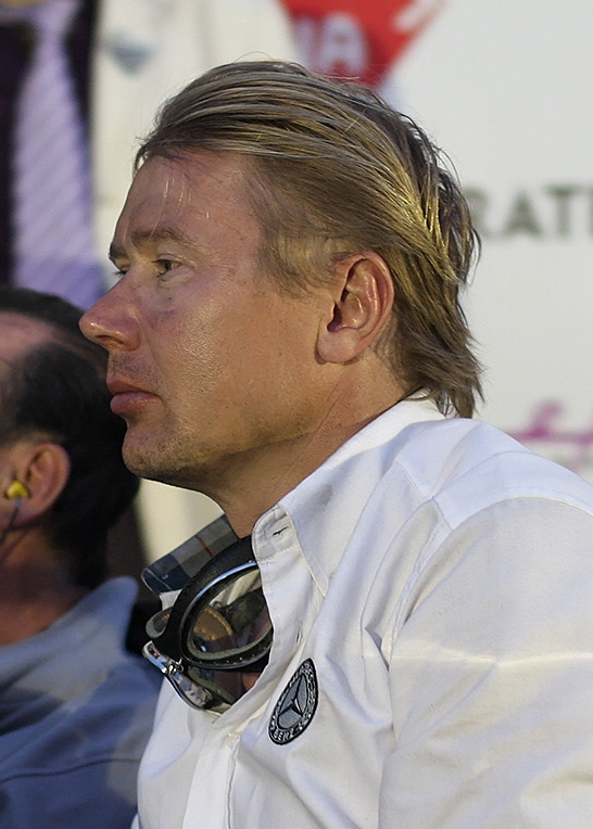 Mika Hakkinen at the 2011 Mille Miglia